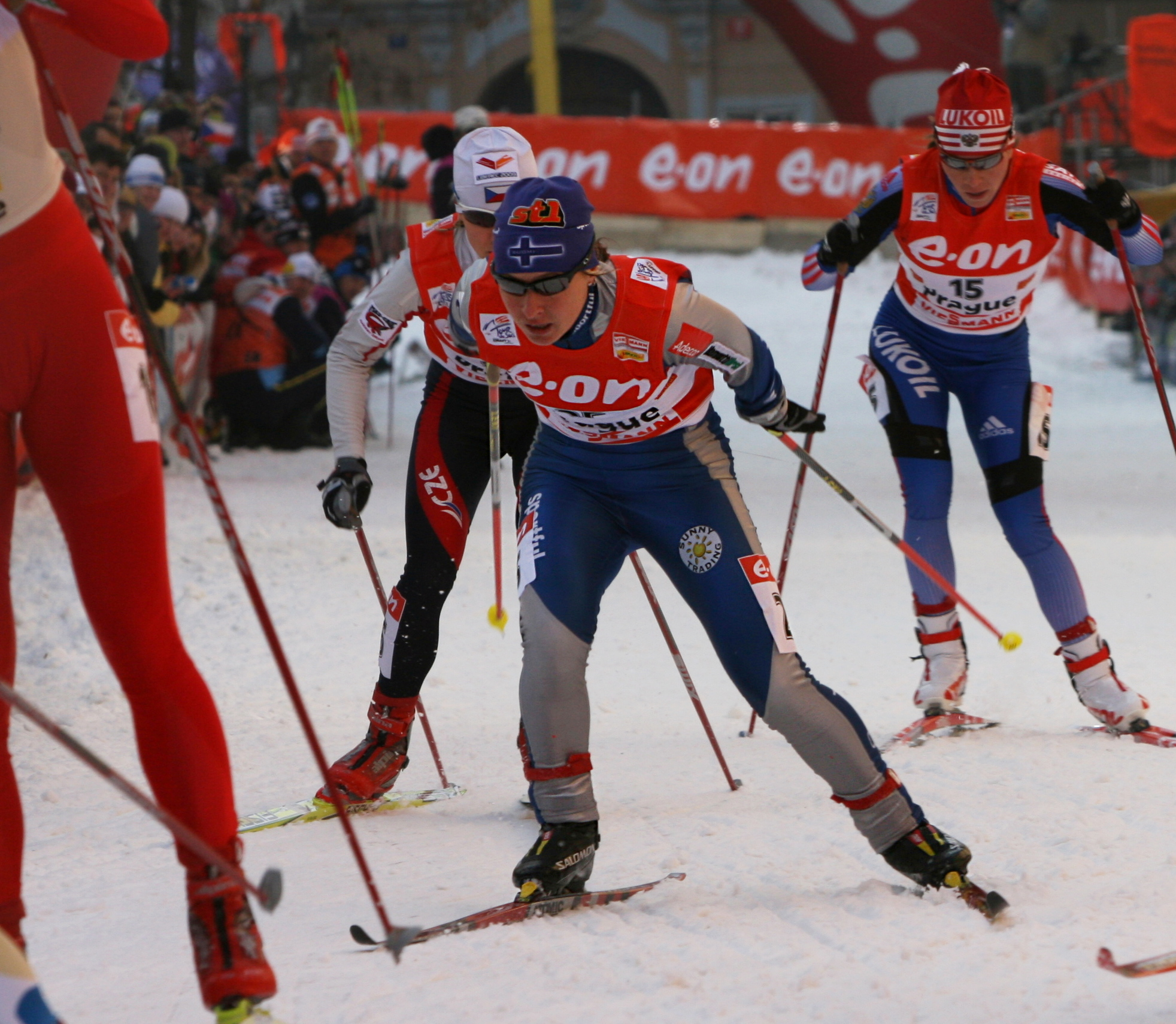 Riitta-Liisa Roponen in the quaterfinals of Tour de Ski in Prague